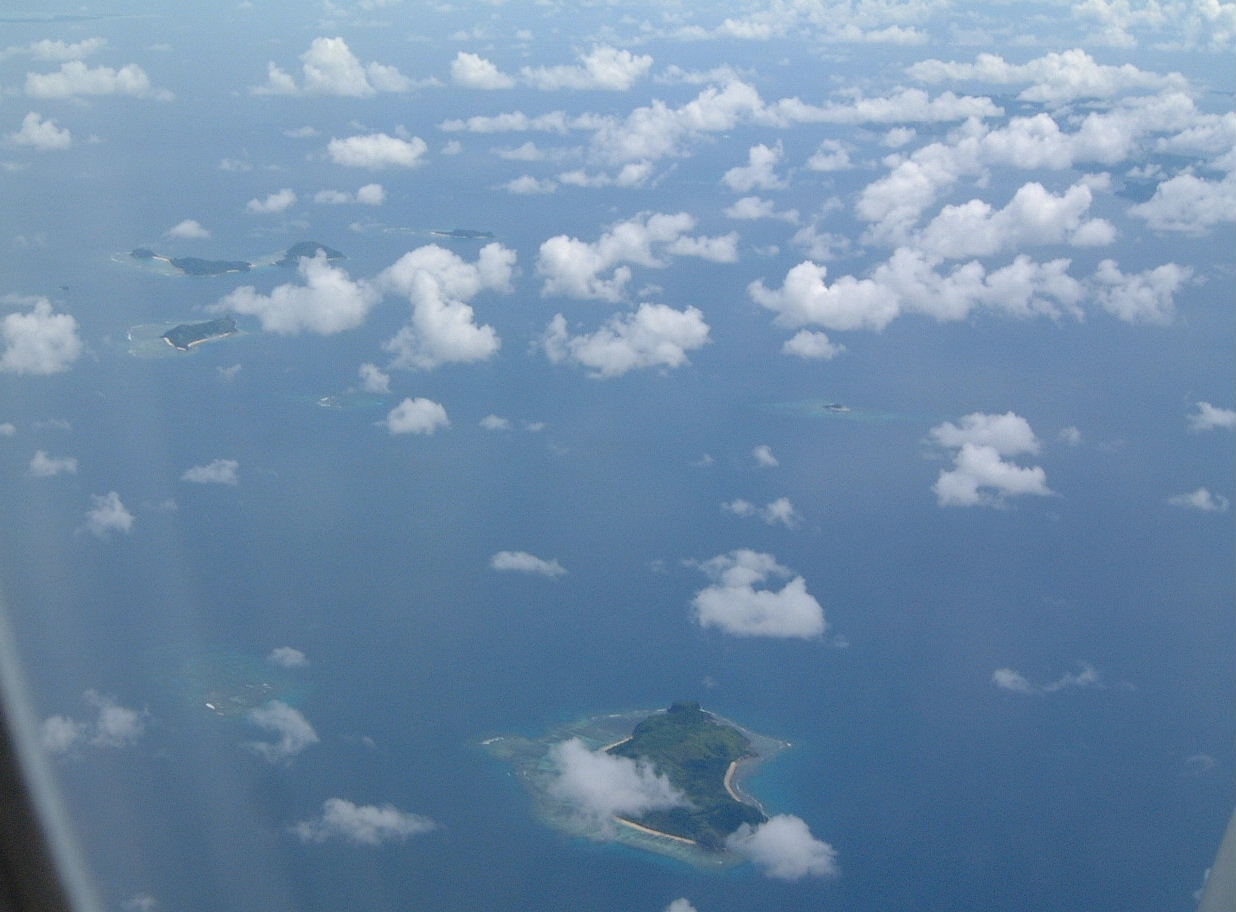 Mamanuca island group in Fiji